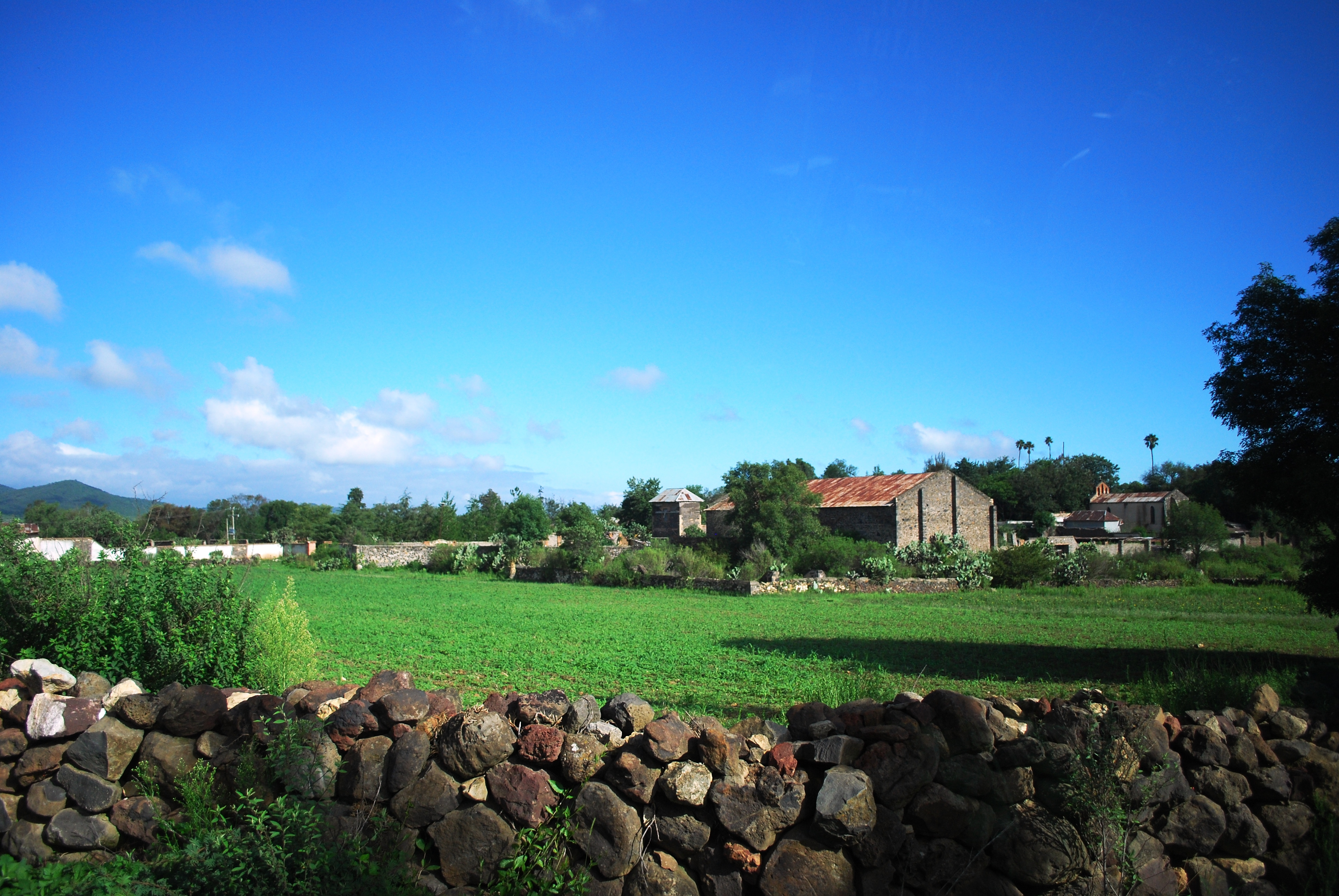 View of San Juan Hueyapan Hacienda in Huasca de Ocampo, Hidalgo, Mexico